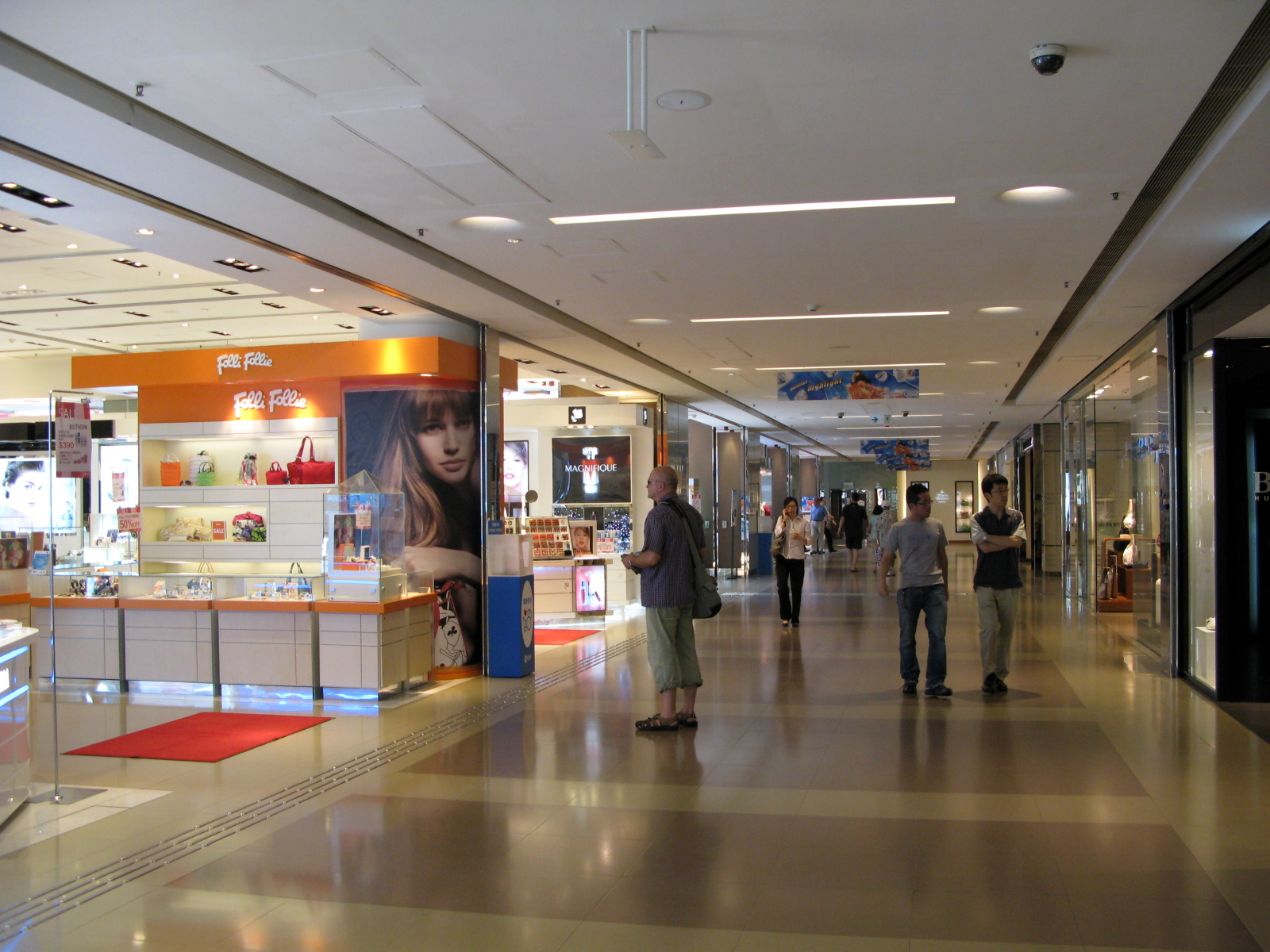 SOGO TST Access 尖沙咀崇光百貨 (2009年)